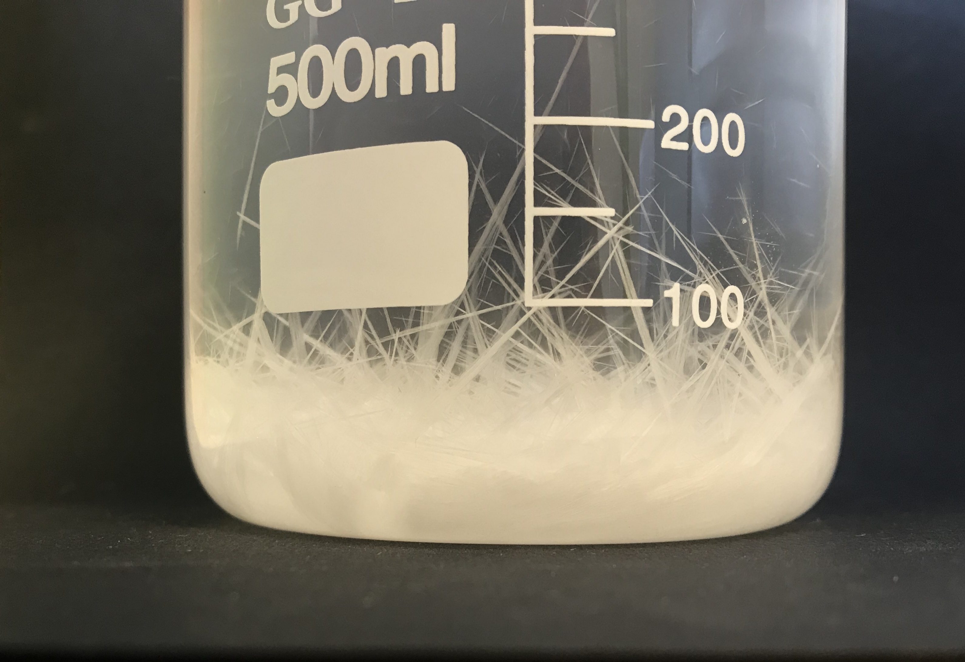 The formation of needle crystals of ammonium nitrate during the cooling of a saturated solution.